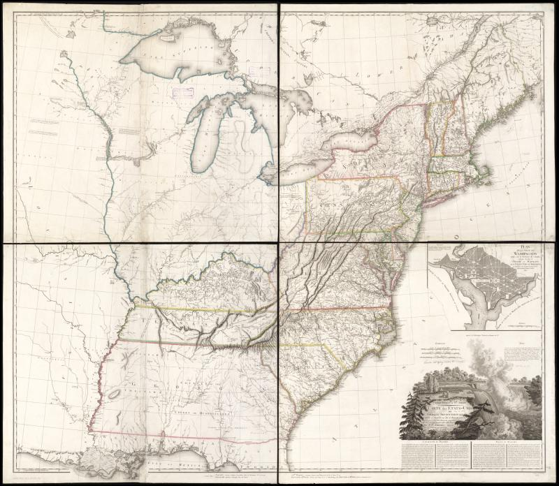 Zoom into this map at . Author: Tardieu, Pierre Antoine Publisher: Treuttel et Wurtz Date: 1802 Location: United States Dimensions: 124 x 138 cm. Scale: [ca. 1:1,860,000] Call Number: G3700 1802 .T37